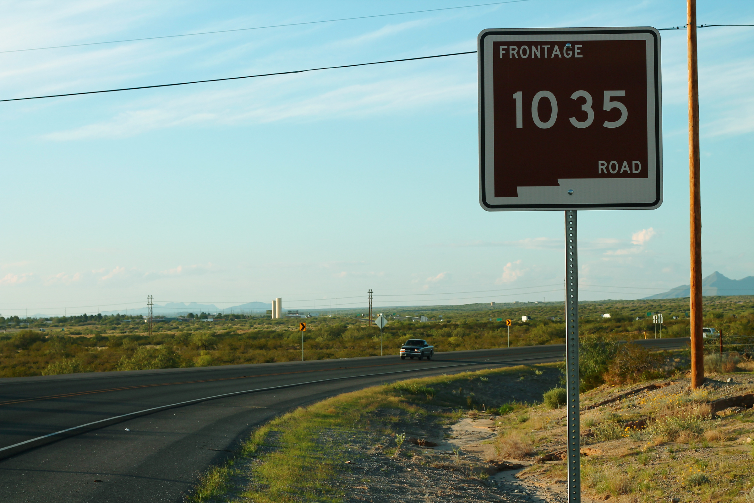 NM1035 Frontage Road Sign